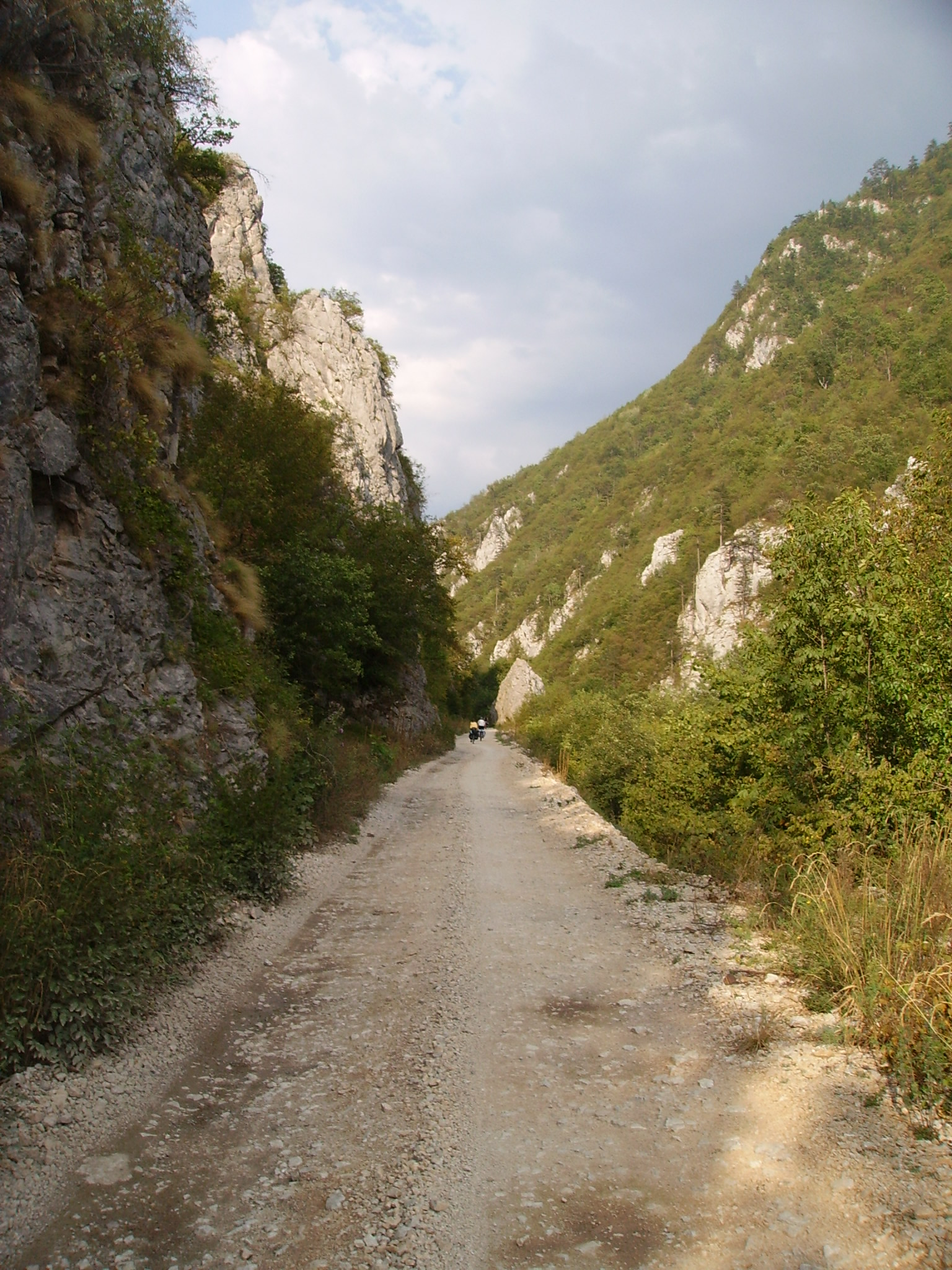 Bosnia, Magistralna cesta 5 in the valley of River Prača east of Renovica.